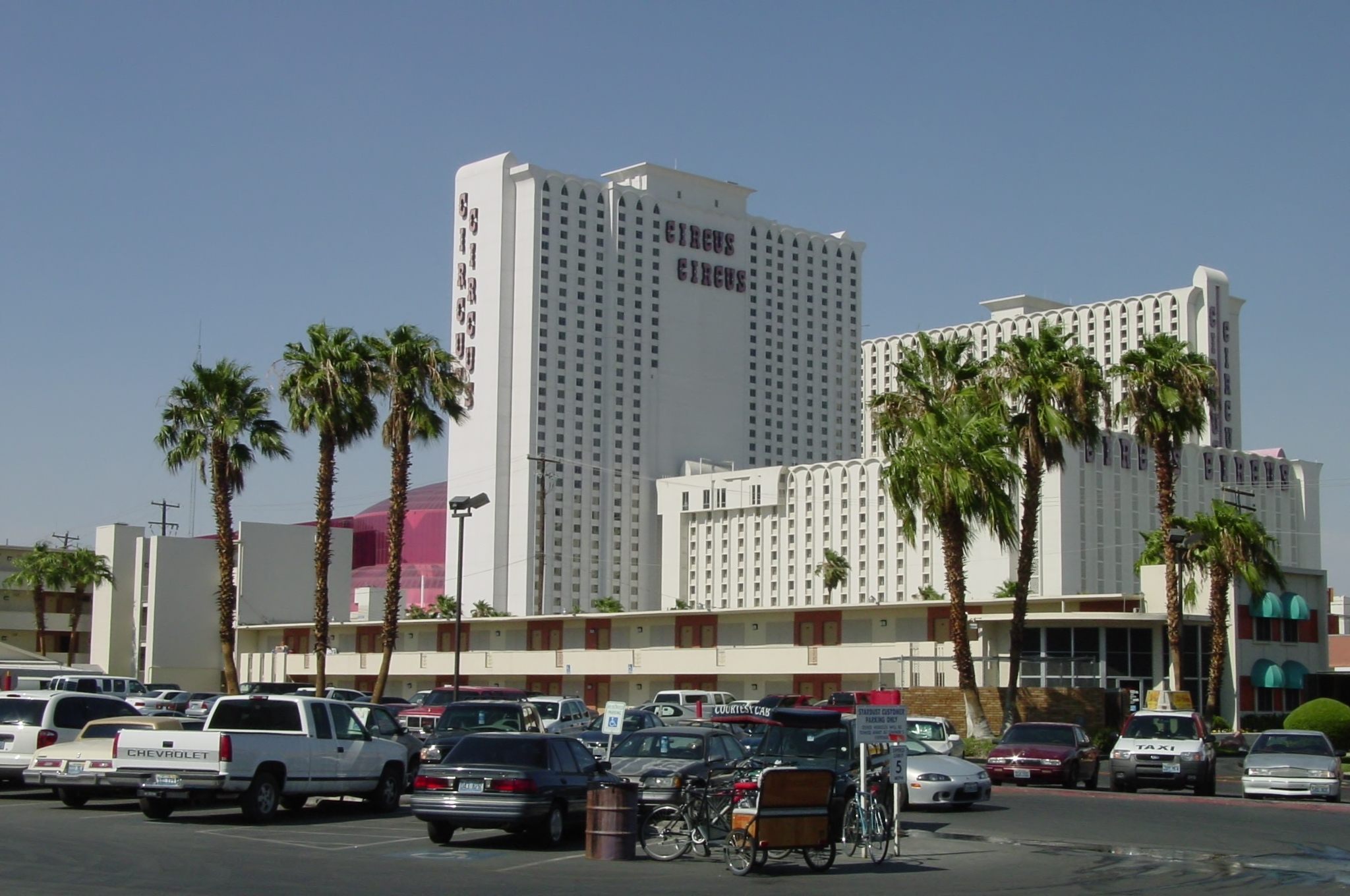 Circus Circus Las Vegas in Las Vegas, Nevada, USA